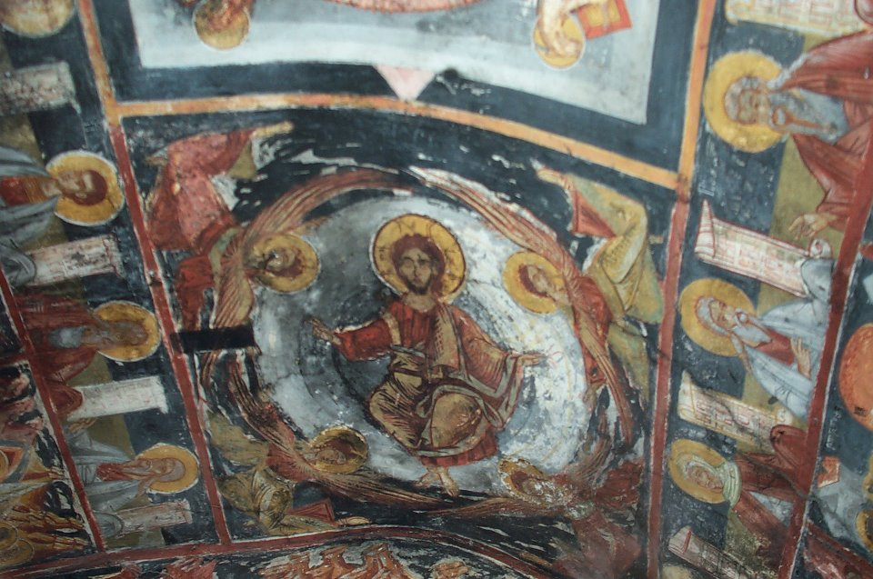 13 century fresco in St. Michael the Archangel Church in Radožda, Macedonia